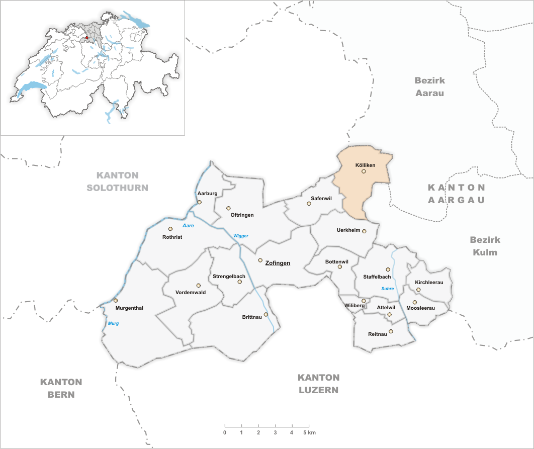 Municipality Kölliken